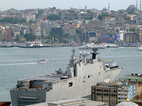 Spanish warship Juan Carlos I (L-61) enters Istanbul